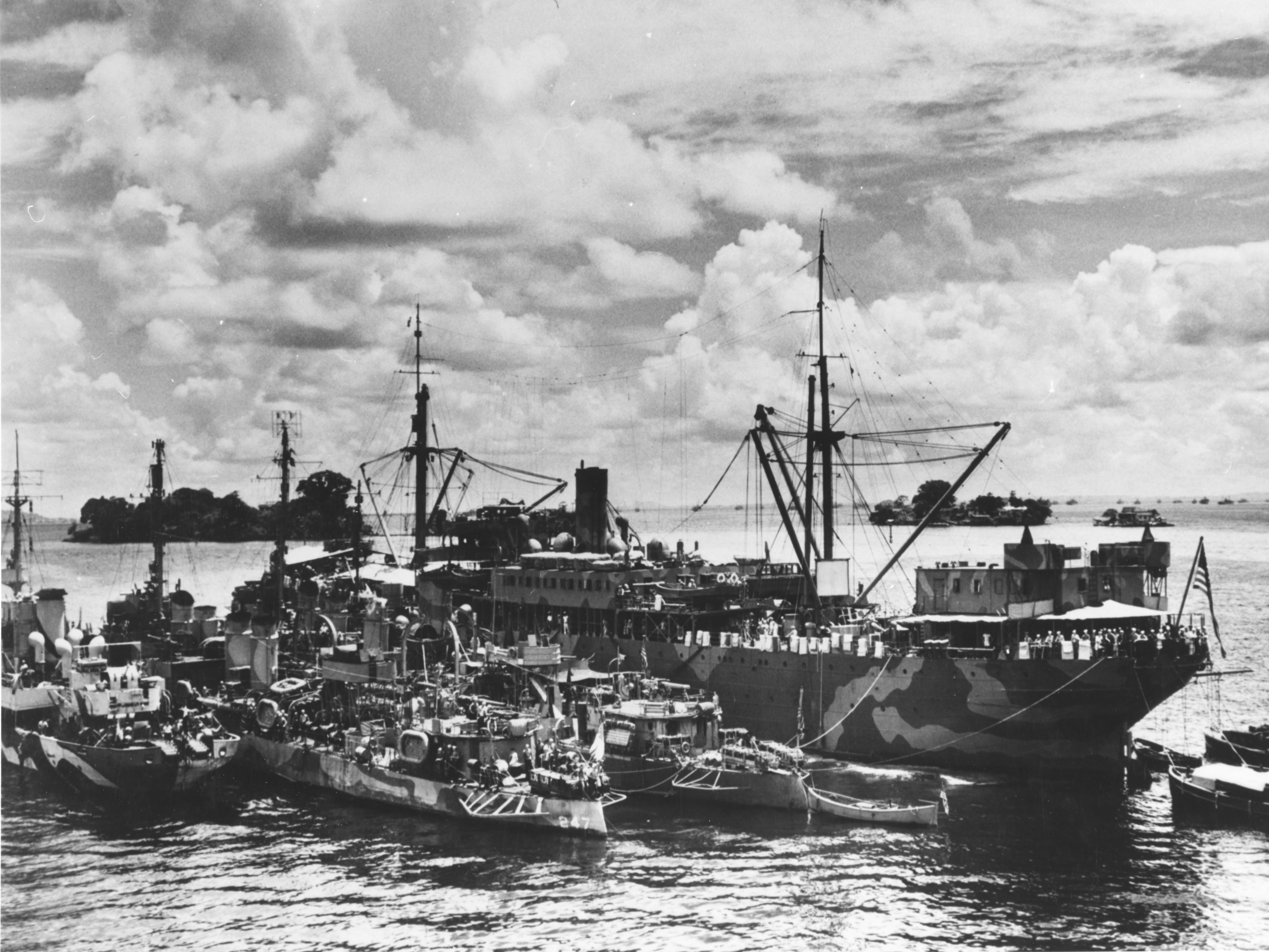 The U.S. Navy destroyer tender USS Altair (AD-11) moored at Port of Spain, Trinidad, on 1 October 1942. The four ships alongside are (from left to right): USS Spry (PG-64); USS Bainbridge (DD-246); USS Goff (DD-247); and Dutch minelayer/patrol vessel Jan van Brakel (M80). Note the Measure 12 (modified) camouflage on most of these ships. The photo was taken from the seaplane tender USS Pocomoke (AV-9)